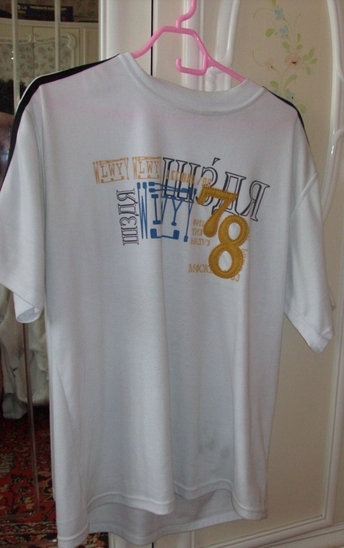 Fake Cyrillic print on the t-shirt which says ШЗ́ДЯ (WEAR)